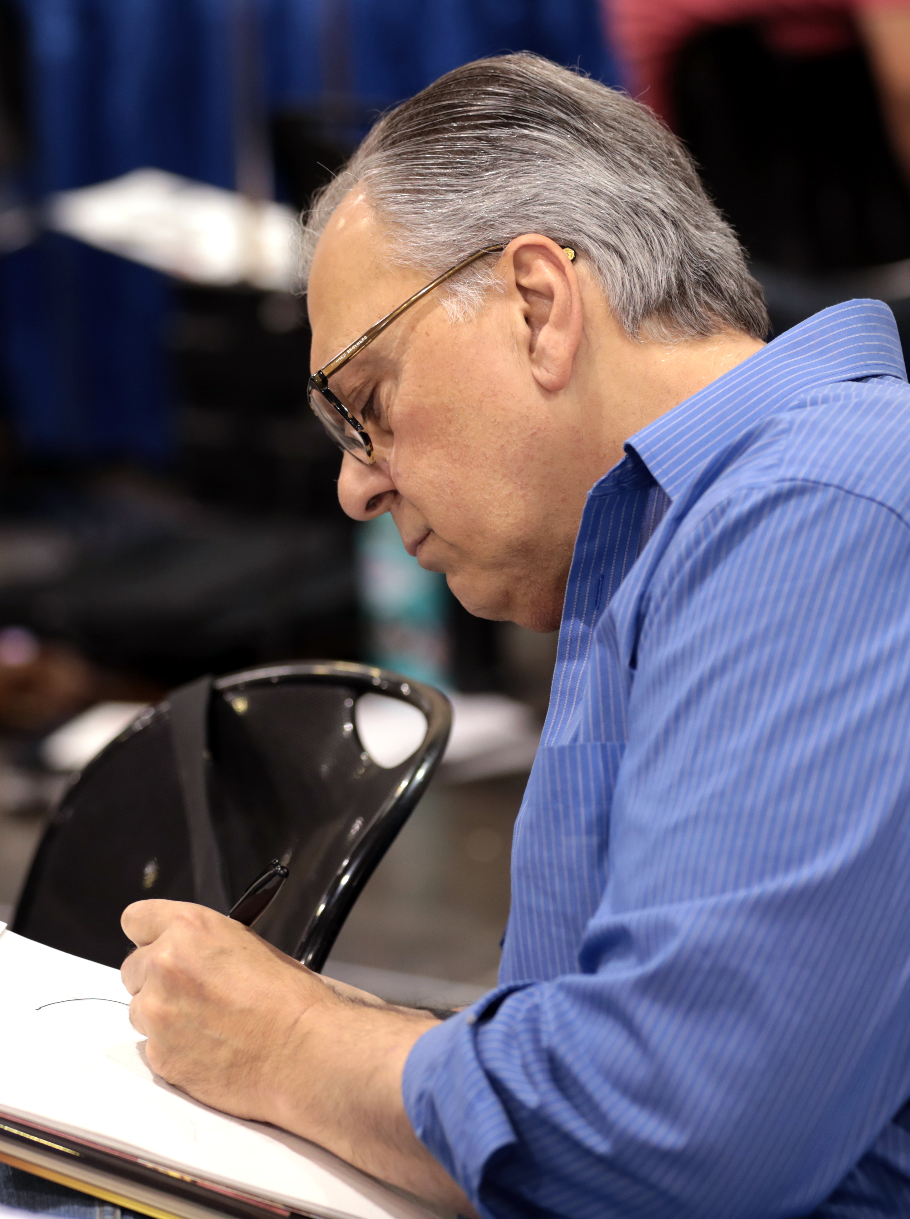 Howard Chaykin speaking at the 2019 Phoenix Fan Fusion in Phoenix, Arizona.